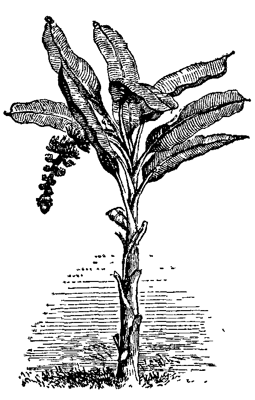 Illustration from 1911 Encyclopædia Britannica, article BANANA. Banana (Musa sapientum).